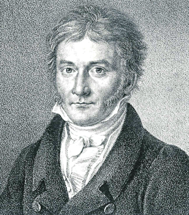 Lithograph showing a portrait of the German mathematician Carl Friedrich Gauss at the age of 50